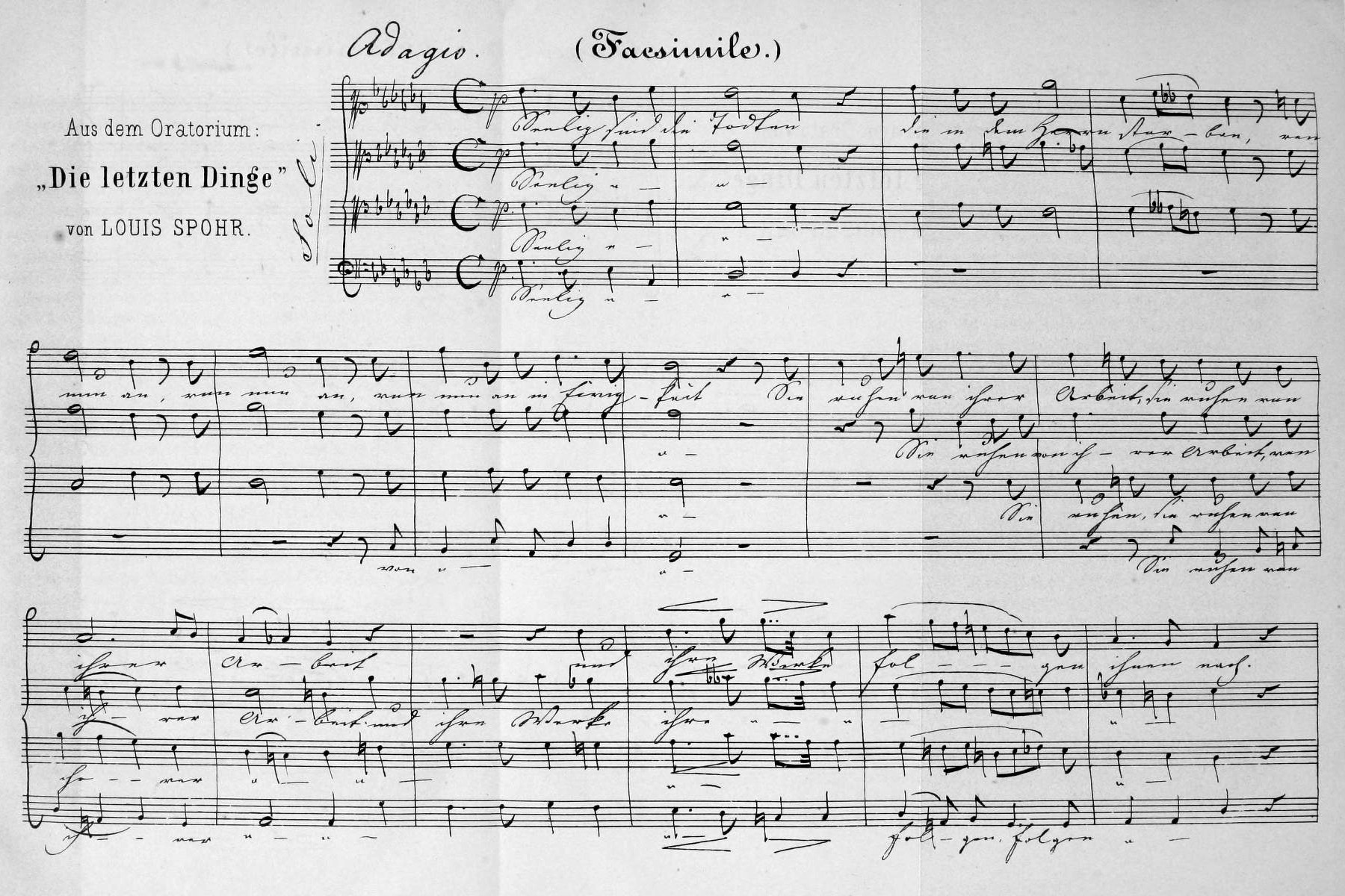 Autograph by Louis Spohr